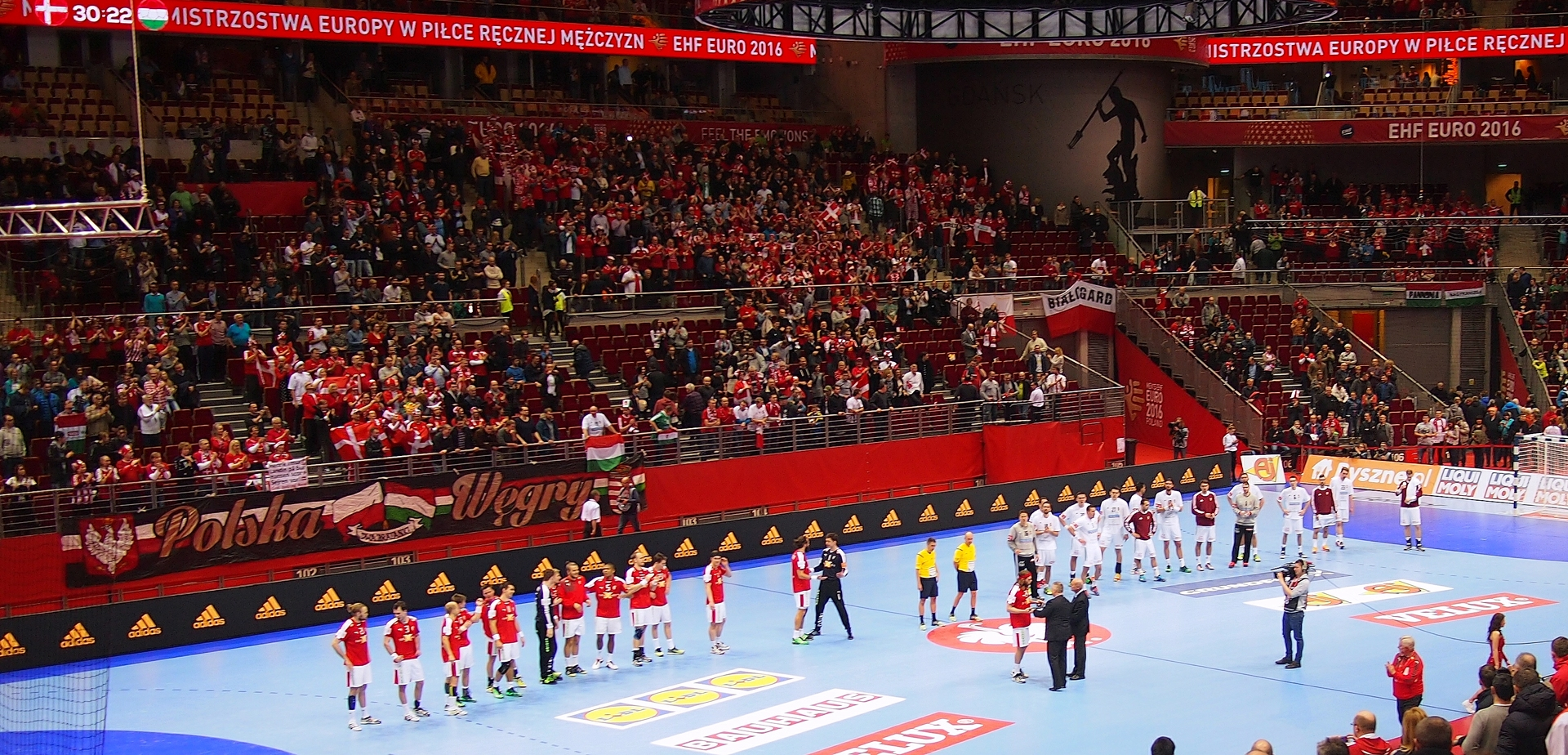 Danish handball player Mikkel Hansen receiving the award for best player of the match at the end of Denmark / Hungary during group stage at the 2016 European Men's Handball Championship. On january 20, 2016 at Ergo Arena, Gdańsk.